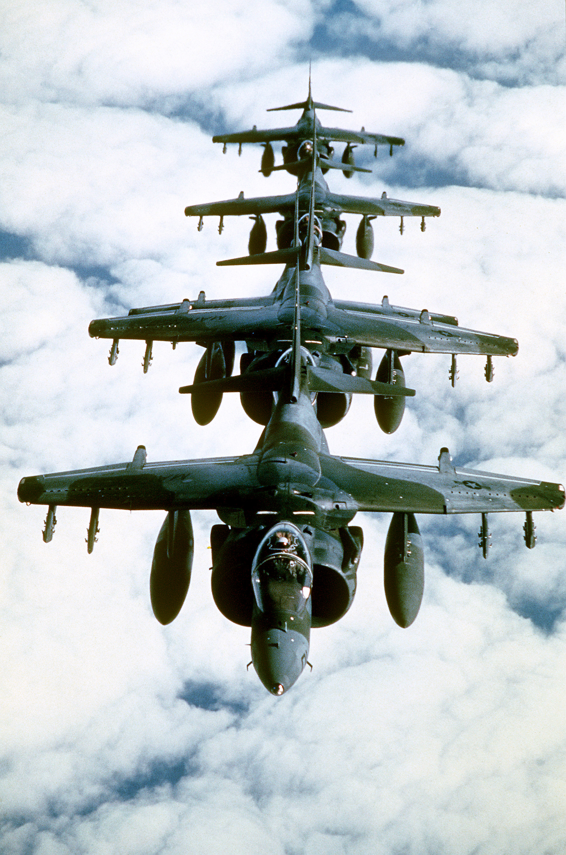 U.S. Marine Corps AV-8B Harrier II attack aircraft from Marine Attack Squadron 513 (VMA-513), Yuma Marine Corps Air Base, Az., fly in formation during Operation DESERT SHIELD.